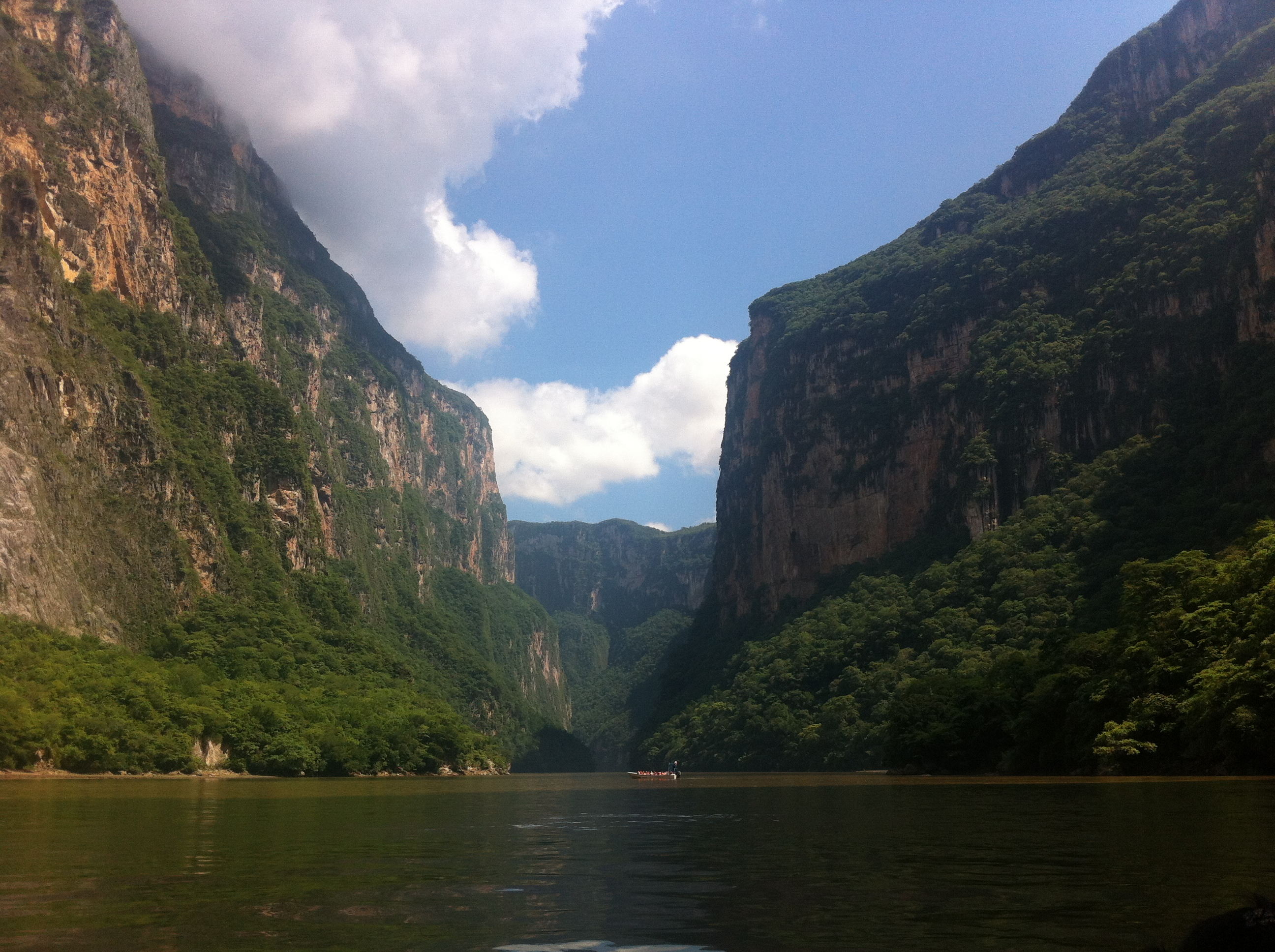 This is an amazing Canyon located in Chiapas, Mexico